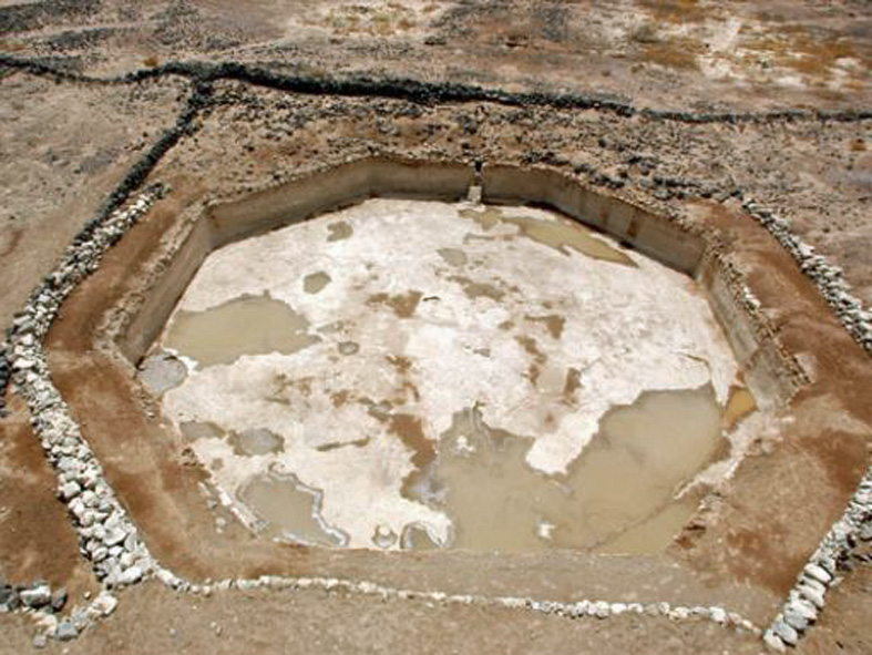 اثار ومواقع أثرية في فيد